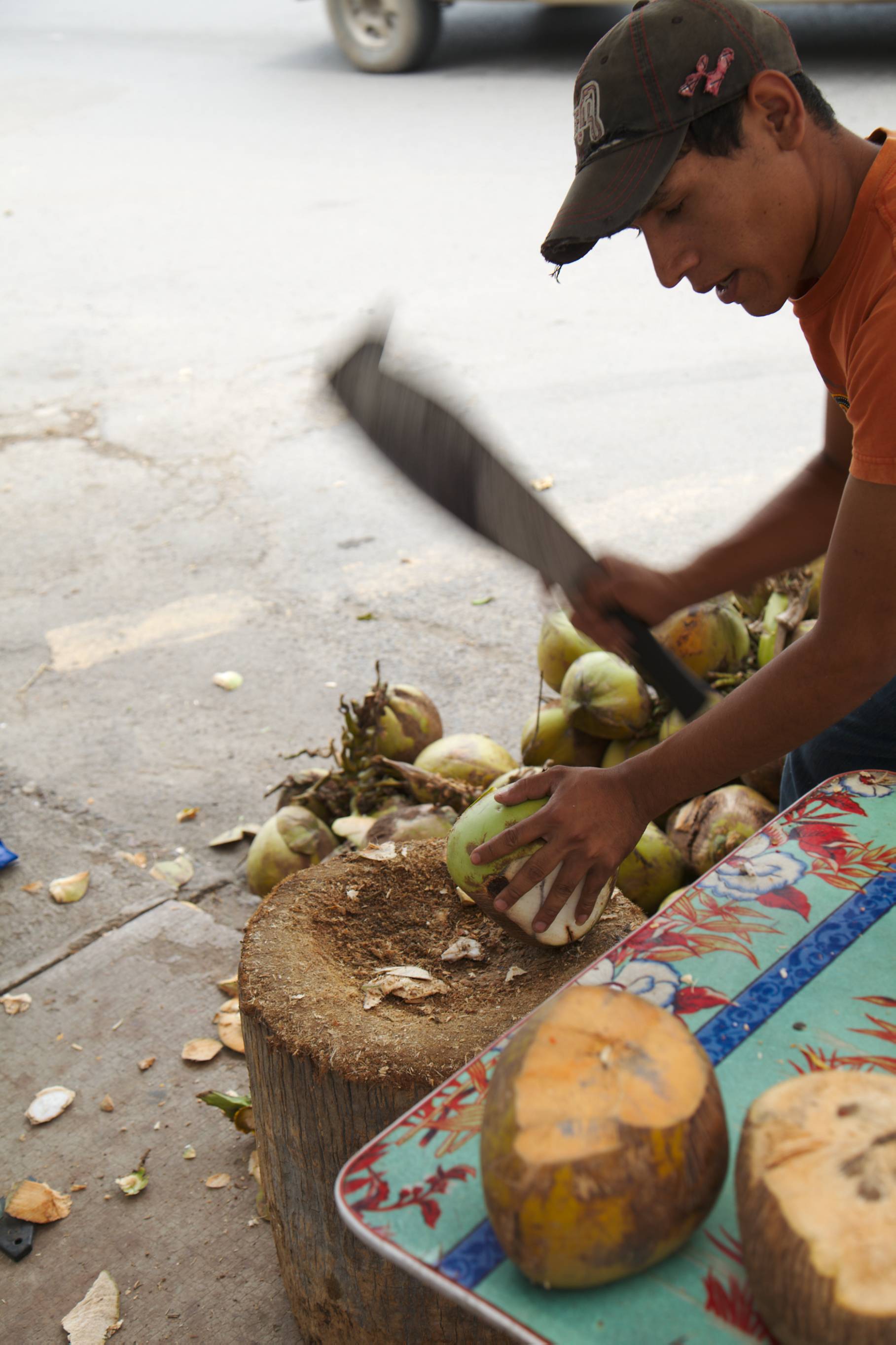 Coconut Street Vendors in Ameca, Jalisco